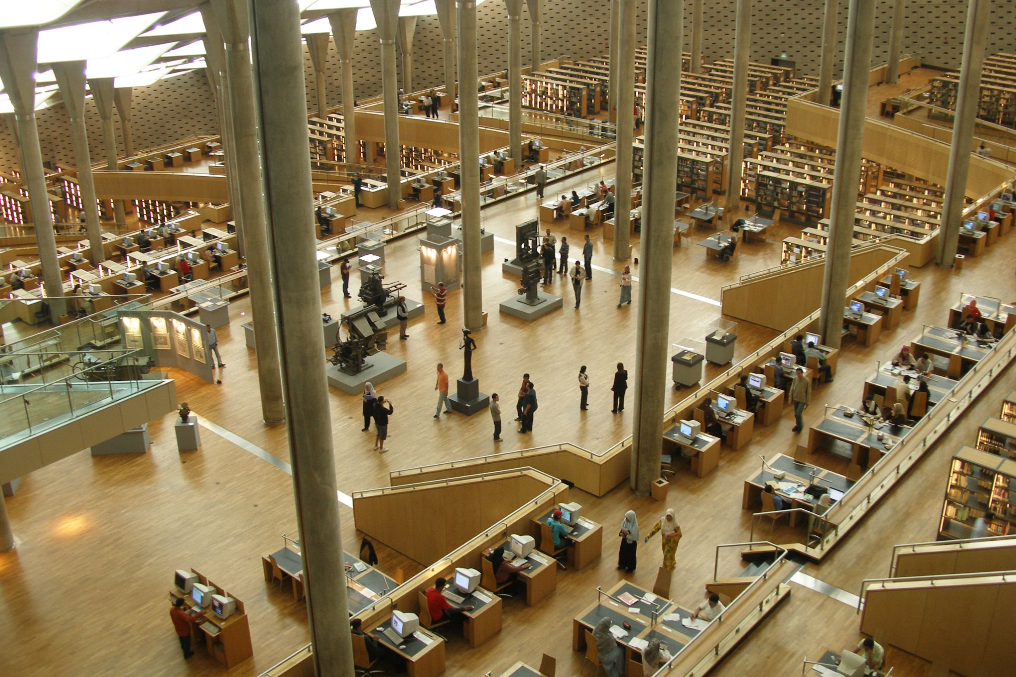 The dimensions of the project are vast: the library has shelf space for eight million books, with the main reading room covering 70,000 m2 on eleven cascading levels. The complex also houses a conference center; specialized libraries for the blind, for young people, and for children; three museums; four art galleries; a planetarium; and a manuscript restoration laboratory. The library's architecture is equally striking. The main reading room stands beneath a 32-meter-high glass-panelled roof, tilted out toward the sea like a sundial, and measuring some 160 m in diameter. The walls are of gray Aswan granite, carved with characters from 120 different human scripts.